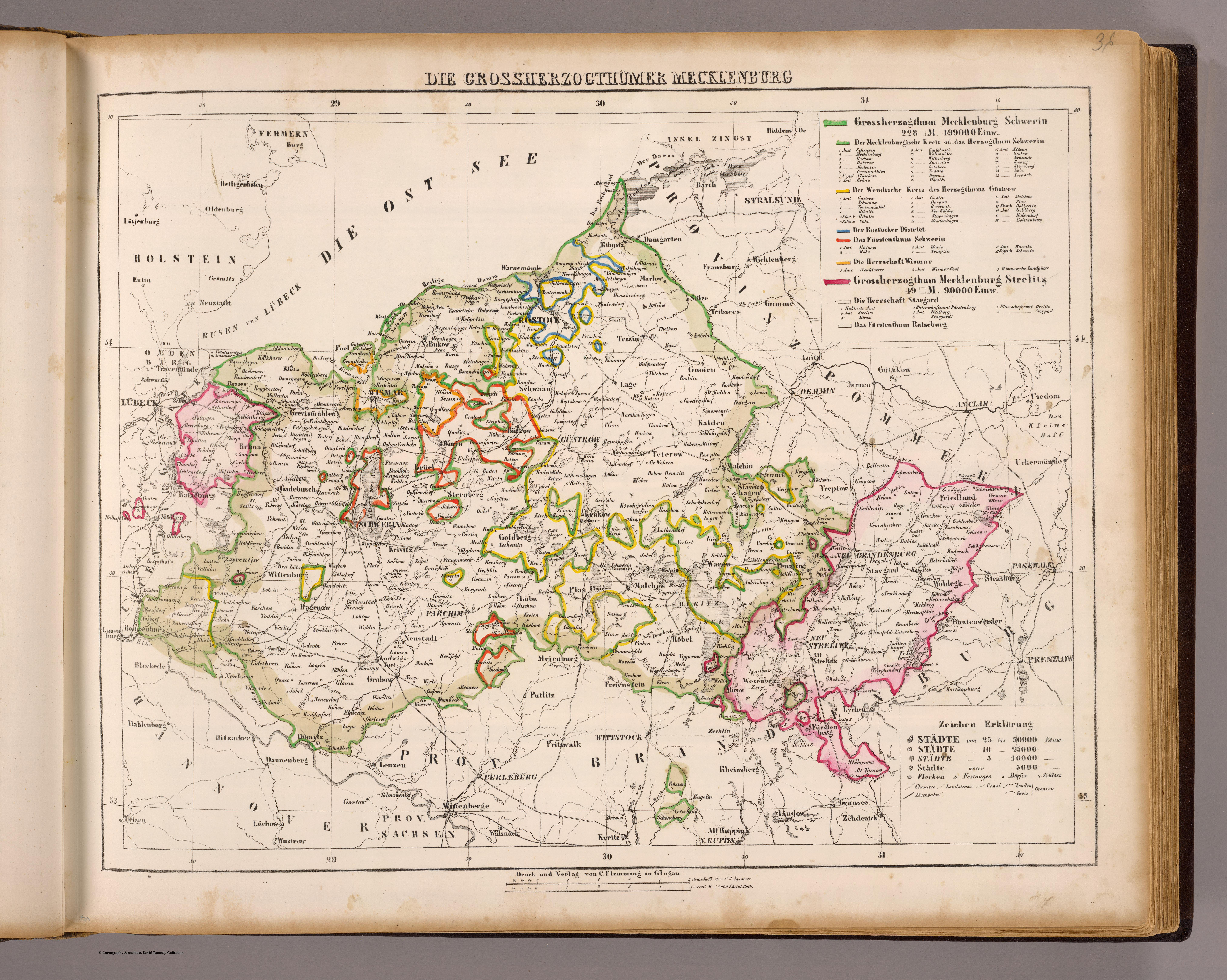 Map of the two Grand Duchies of Mecklenburg (Northeastern Germany). Published in 1855. Labelled in German.